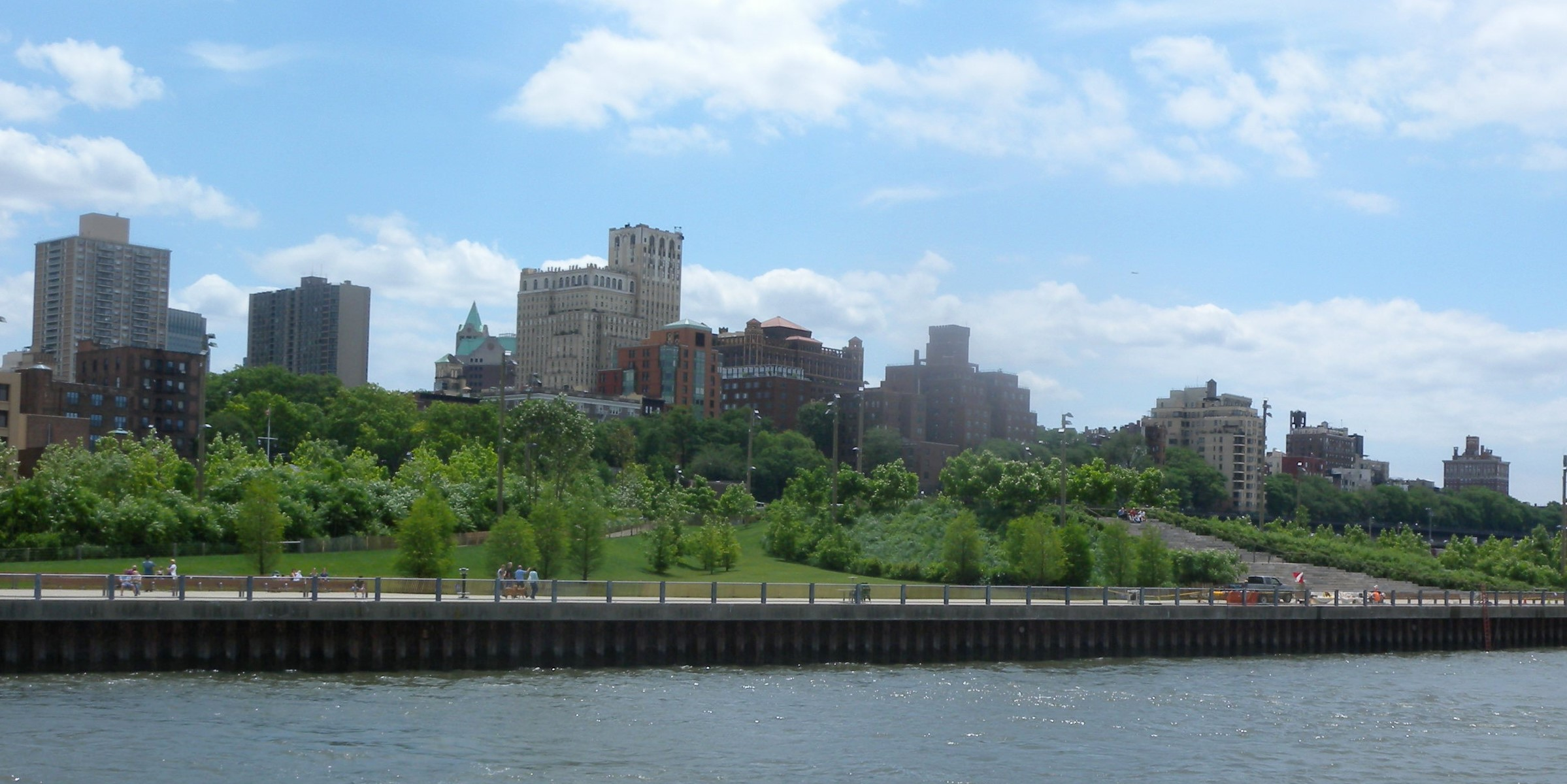 Looking southeast at Pier 1 of Brooklyn Bridge Park on a mostly cloudy midday.